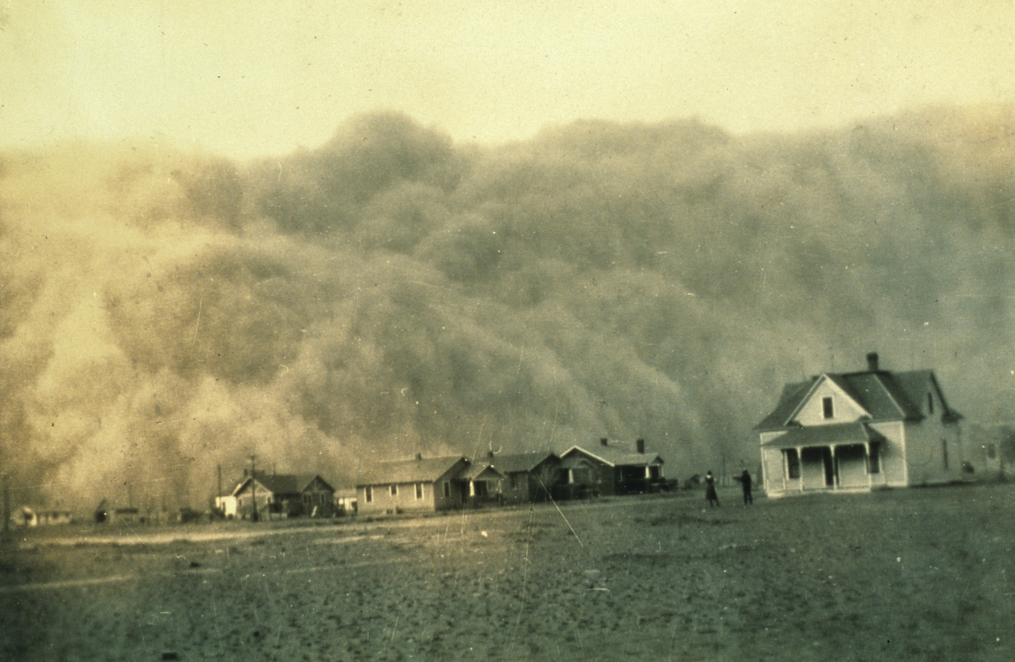 Dust storm approaching Stratford, Texas. Dust Bowl surveying in Texas.